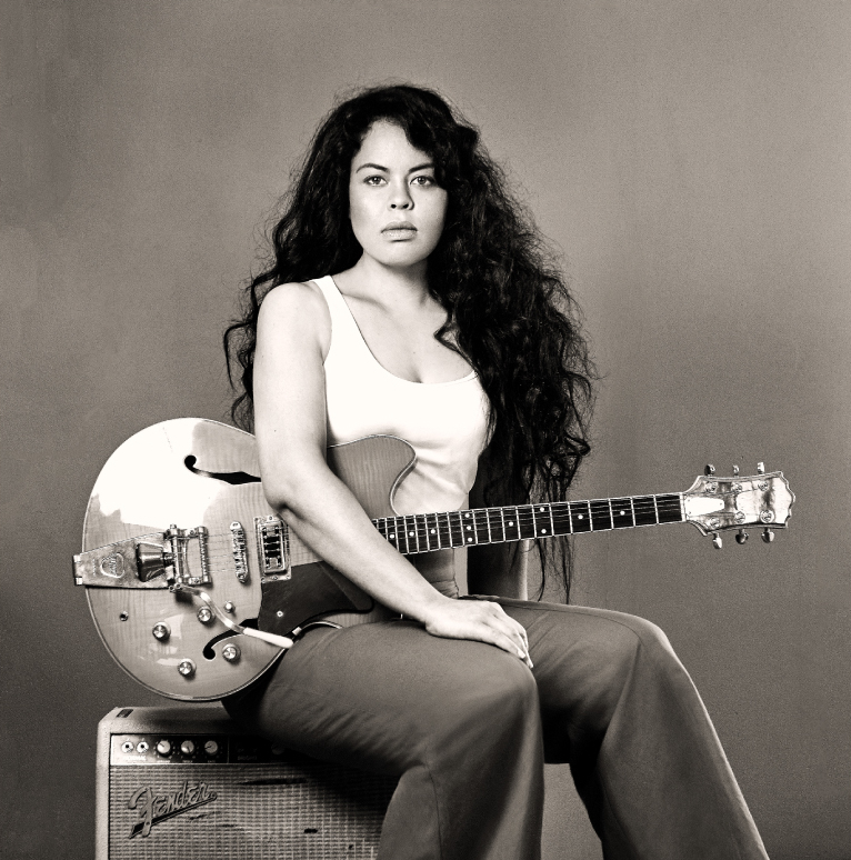 Portrait of Oceanic blues musician, Karen Lee Andrews.